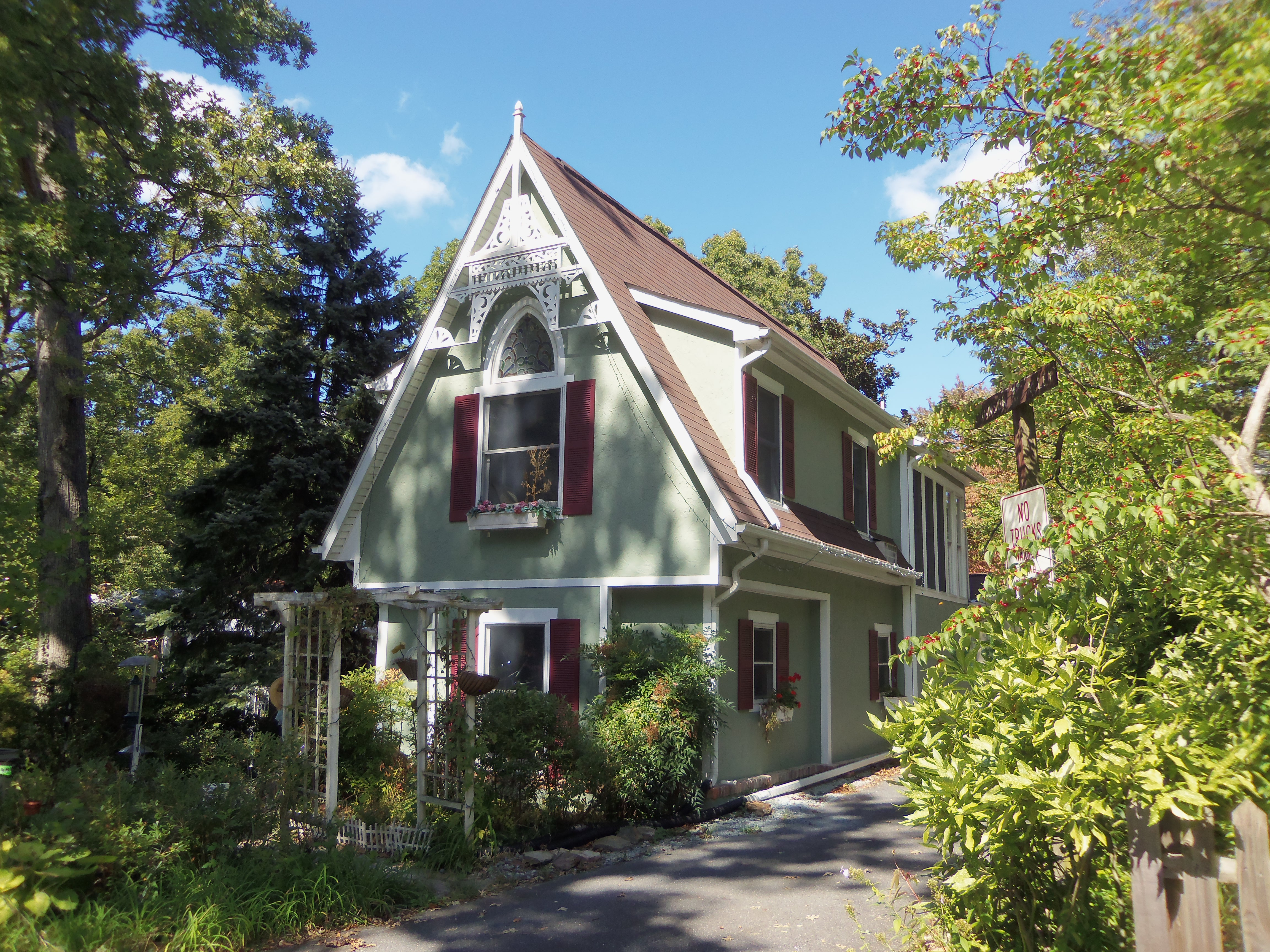 Washington Grove Historic District